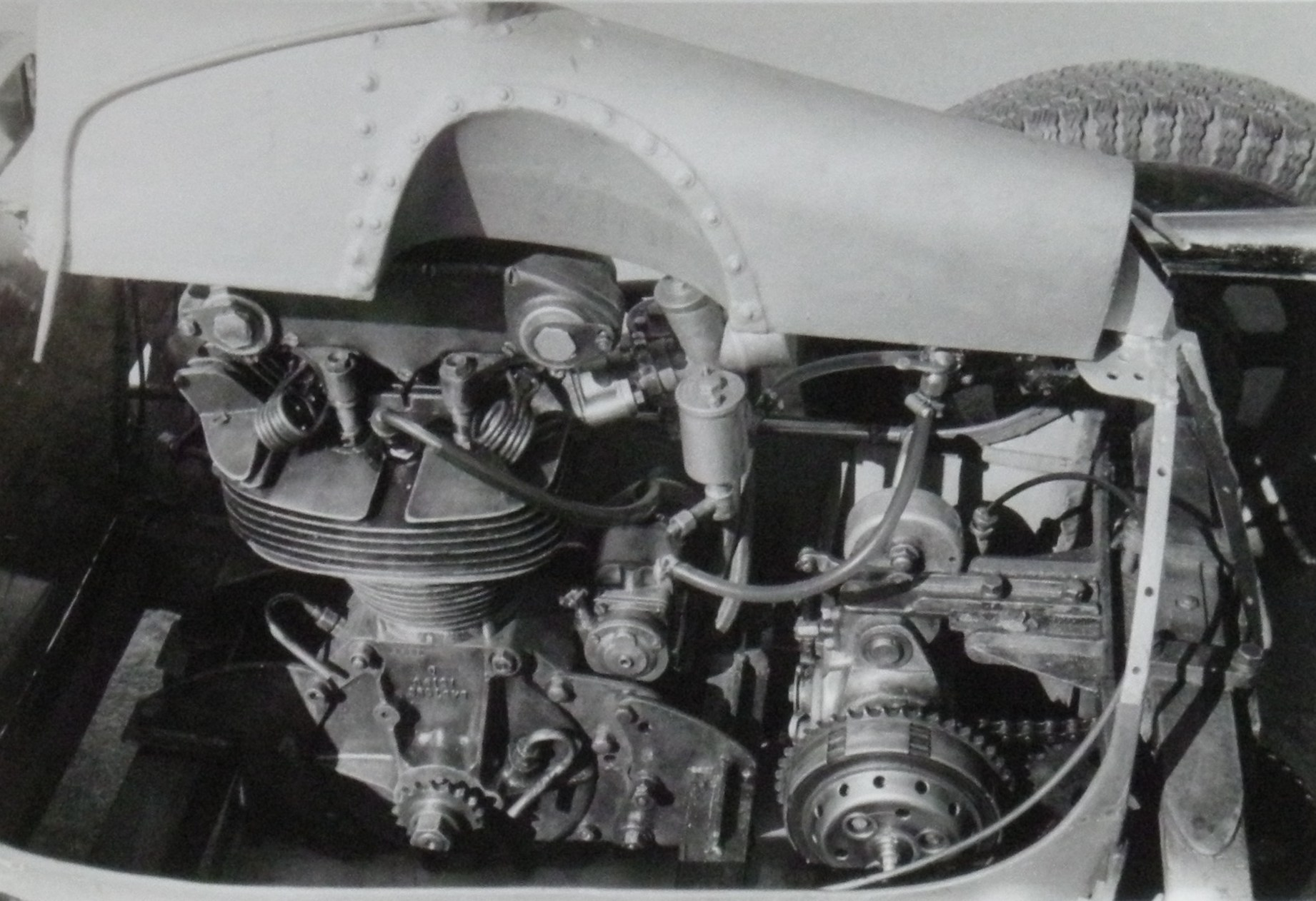 Norton Manx in Cooper F3